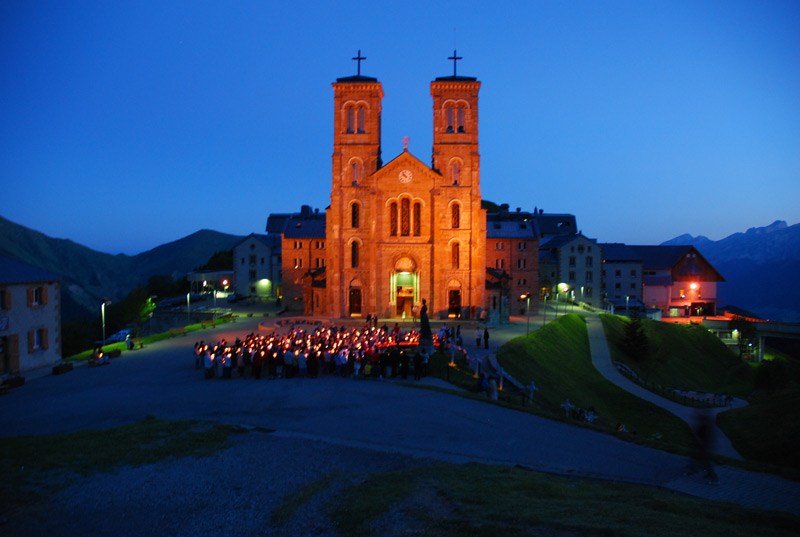 La Salette, France.